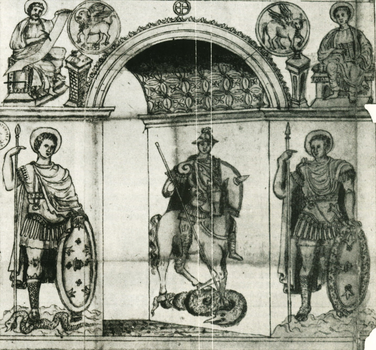 Drawing of the 'Arcus Einhardi', probably the silver foot of a crux gemmata (reliquary cross decorated with gems) formerly in the Treasury of the Basilica of Saint Servatius in Maastricht (lost since the 18th c.). Drawing by unknown artist, 17th c, now in the Bibliothèque nationale de France in Paris. Detail of central part of the drawing, depicting on the inside of the arch a Roman horseman (perhaps Louis de Pious) trampling and piercing a dragon. On the front of the arch two holy Roman soldiers (both with nimbus) with lances and shields, one of them trampling and piercing a dragon or snake. Above the arch a Greek cross. In the corners of the arch the two evangelists with their respective symbols: Saint Mark (winged lion) and Saint Luke (winged ox).